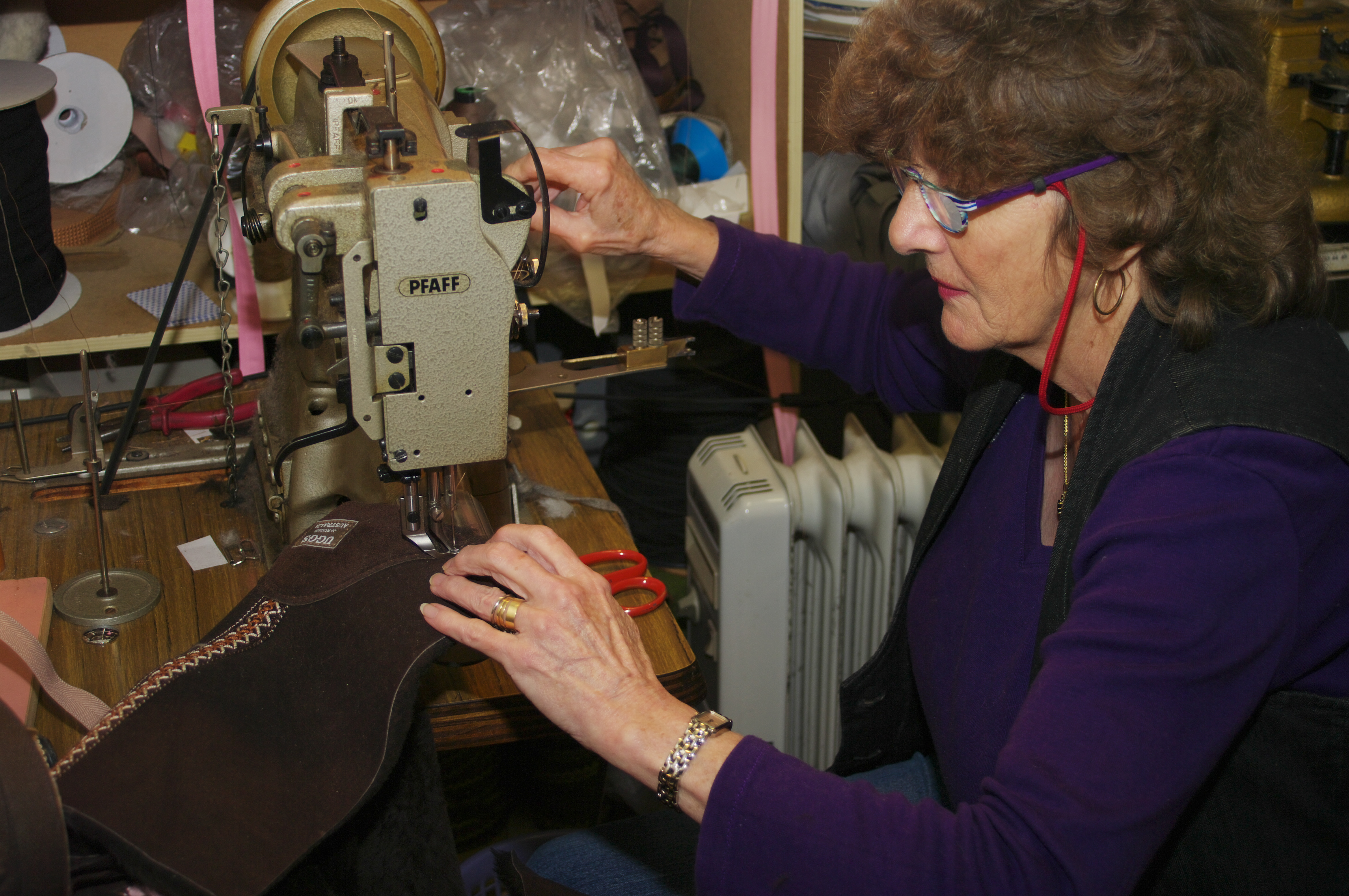 Uggs boots being manufactured in Australia at Uggs-N-Rugs finishing the product